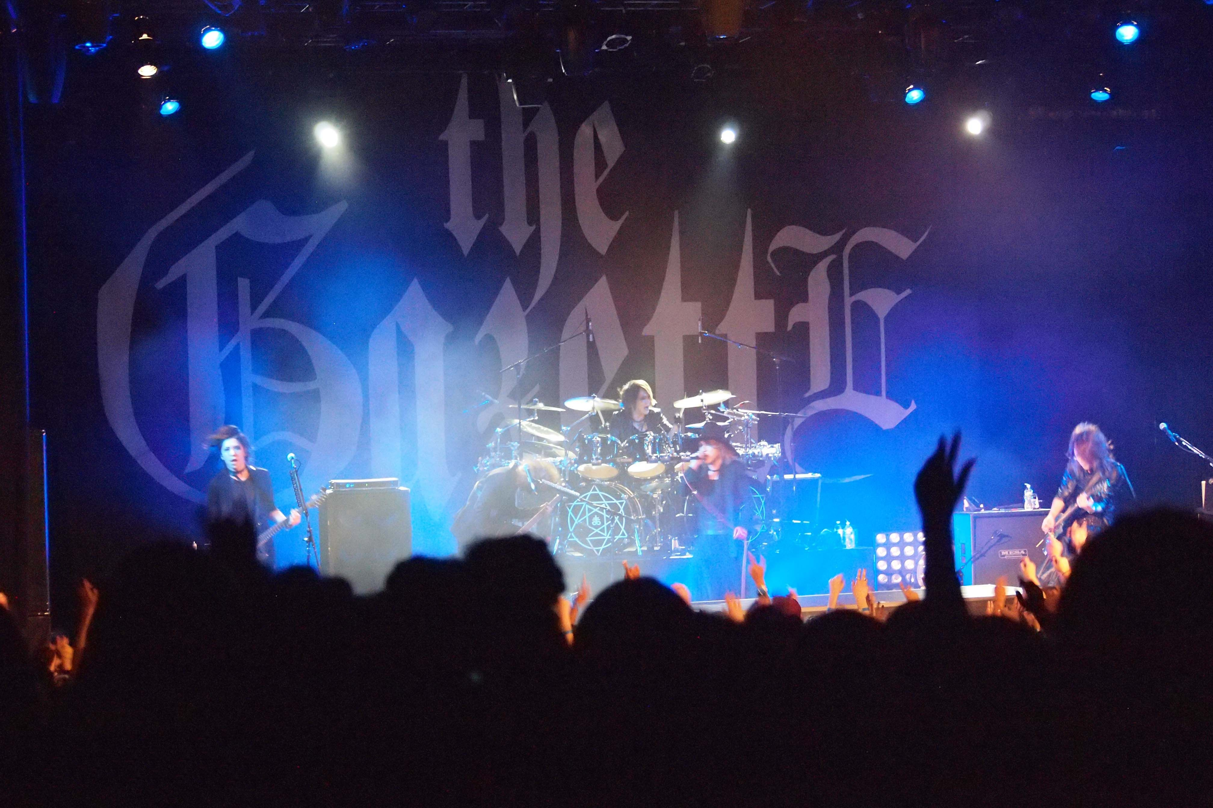 The Gazette performing at PlayStation Theater on April 29, 2016.